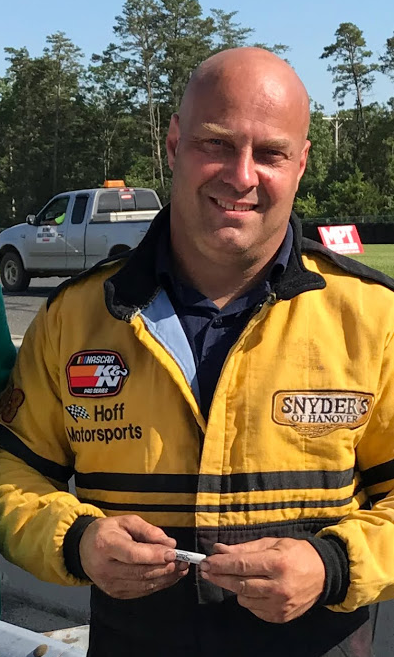 NASCAR driver Bill Hoff at New Jersey Motorsports Park in 2018.